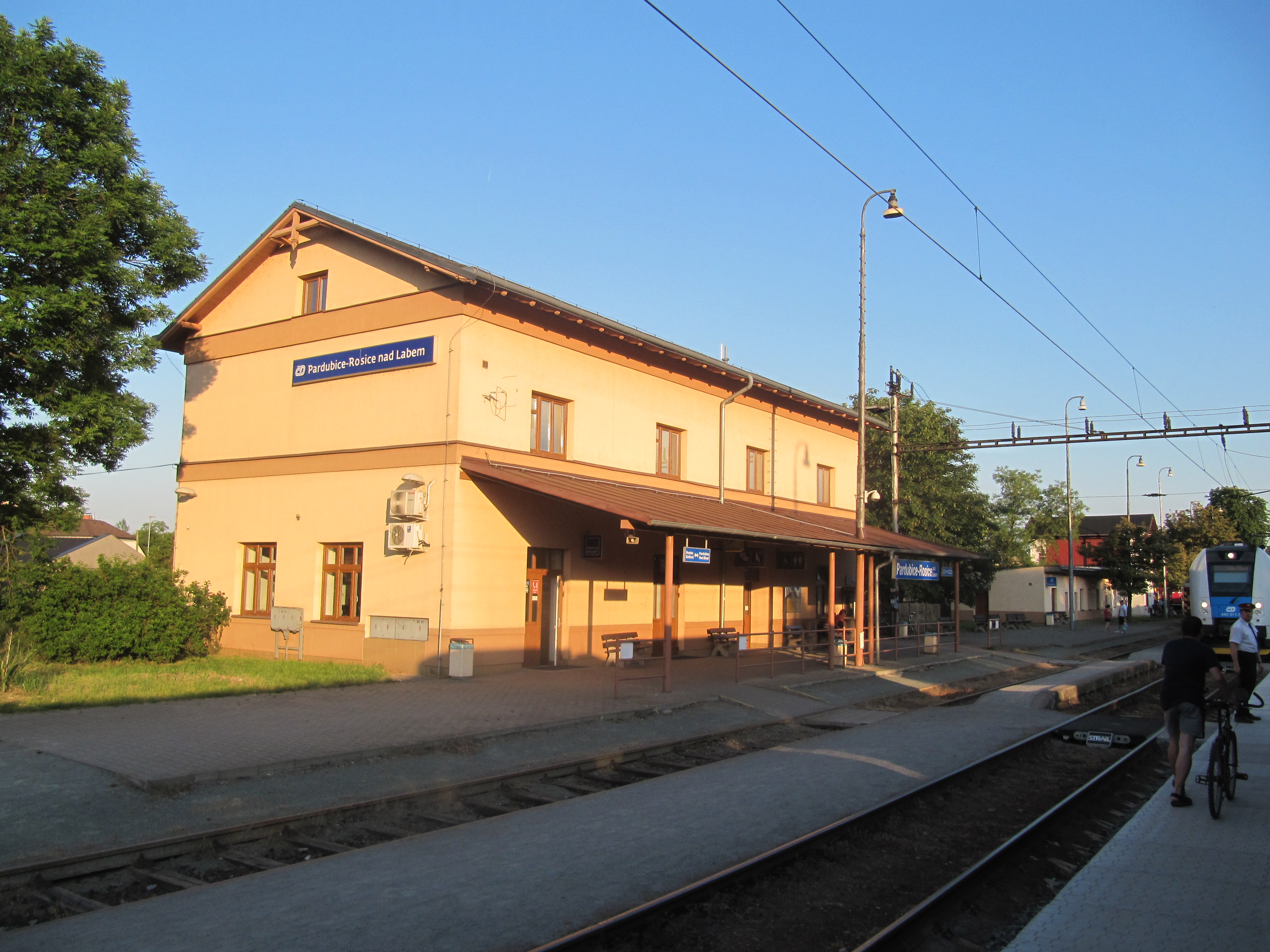 Pardubice, Czech Republic. Pardubice-Rosice nad Labem, train station.